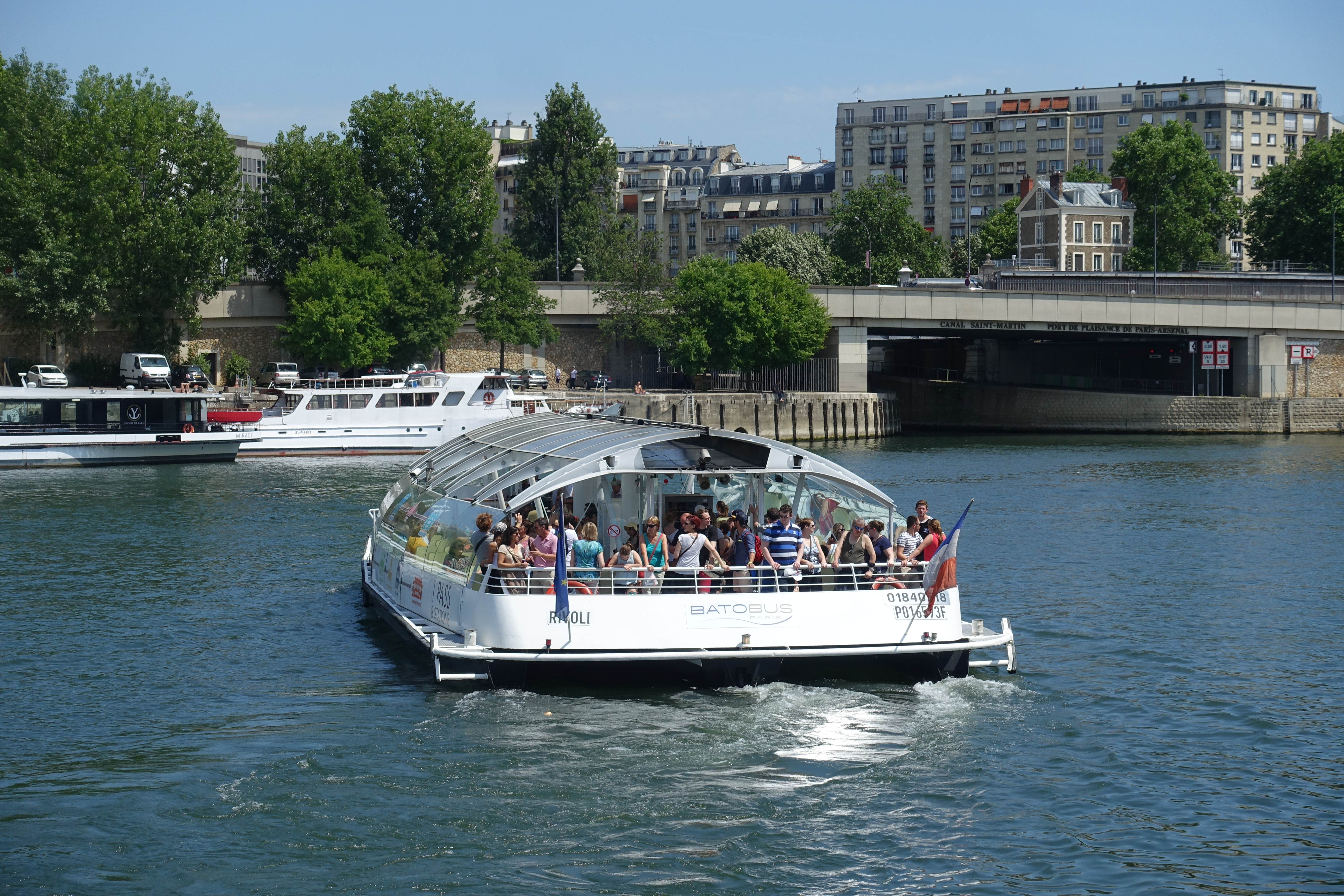 Musée de la sculpture en plein air, a collection of outdoor sculpture located on the banks of the Seine in the 5th arrondissement, Paris, France. The museum opens free of charge.